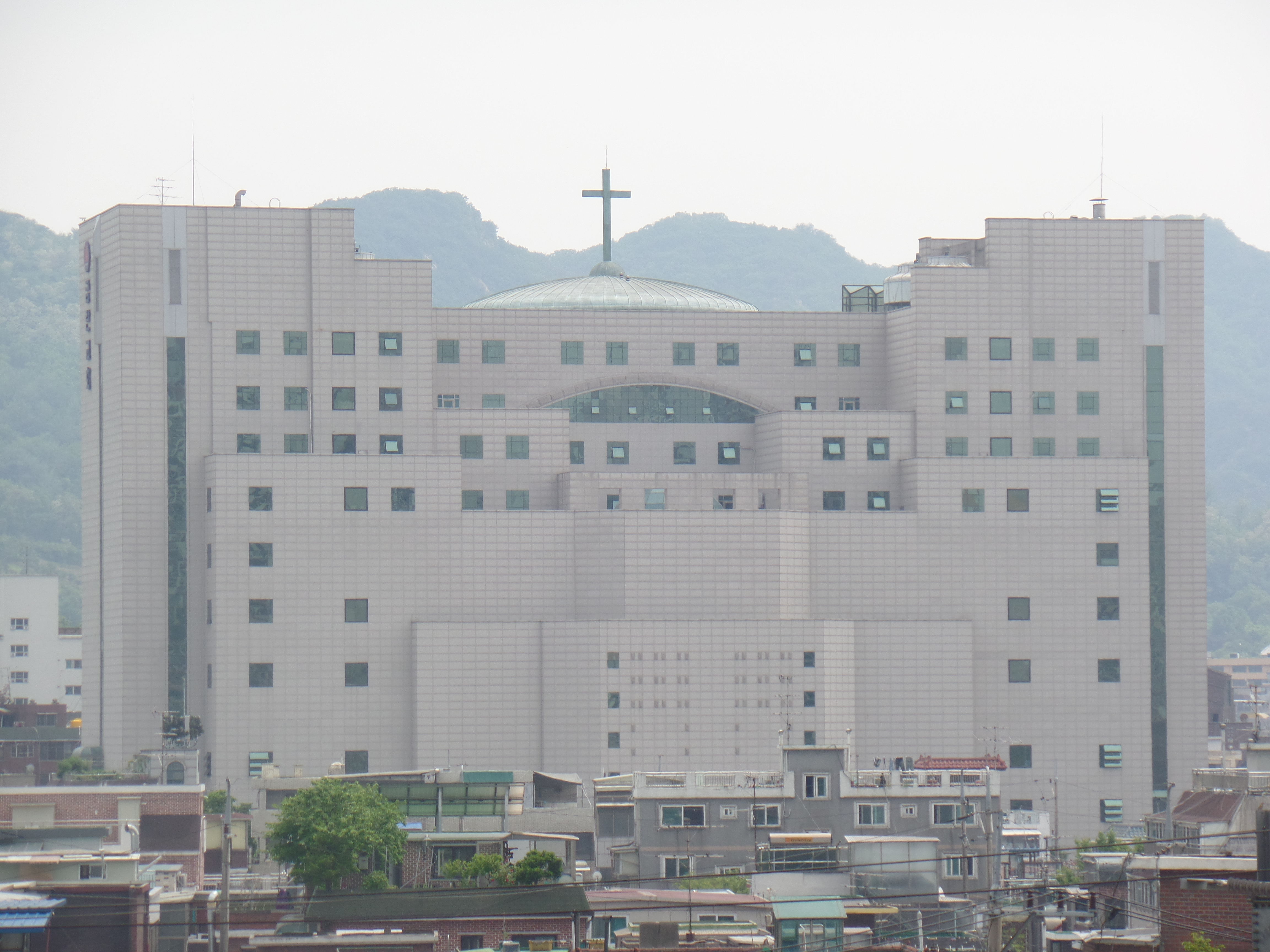 Rear of Kumnan Methodist Church